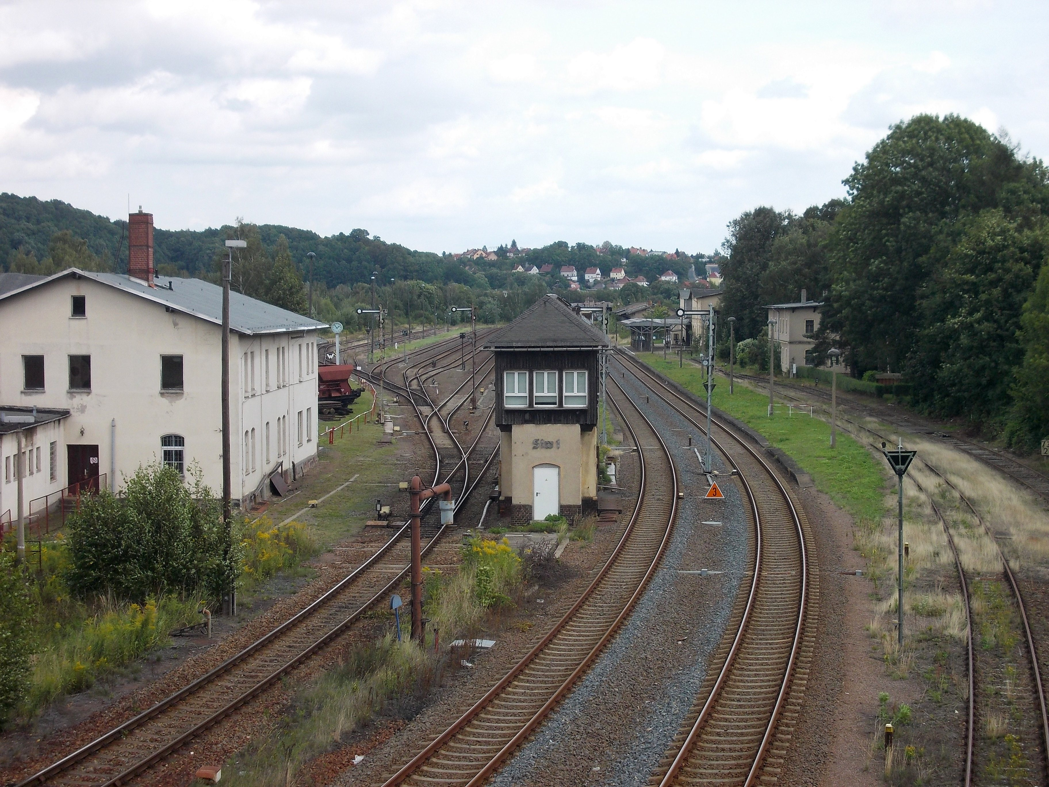 Nossen train station (Meissen district, Saxony)